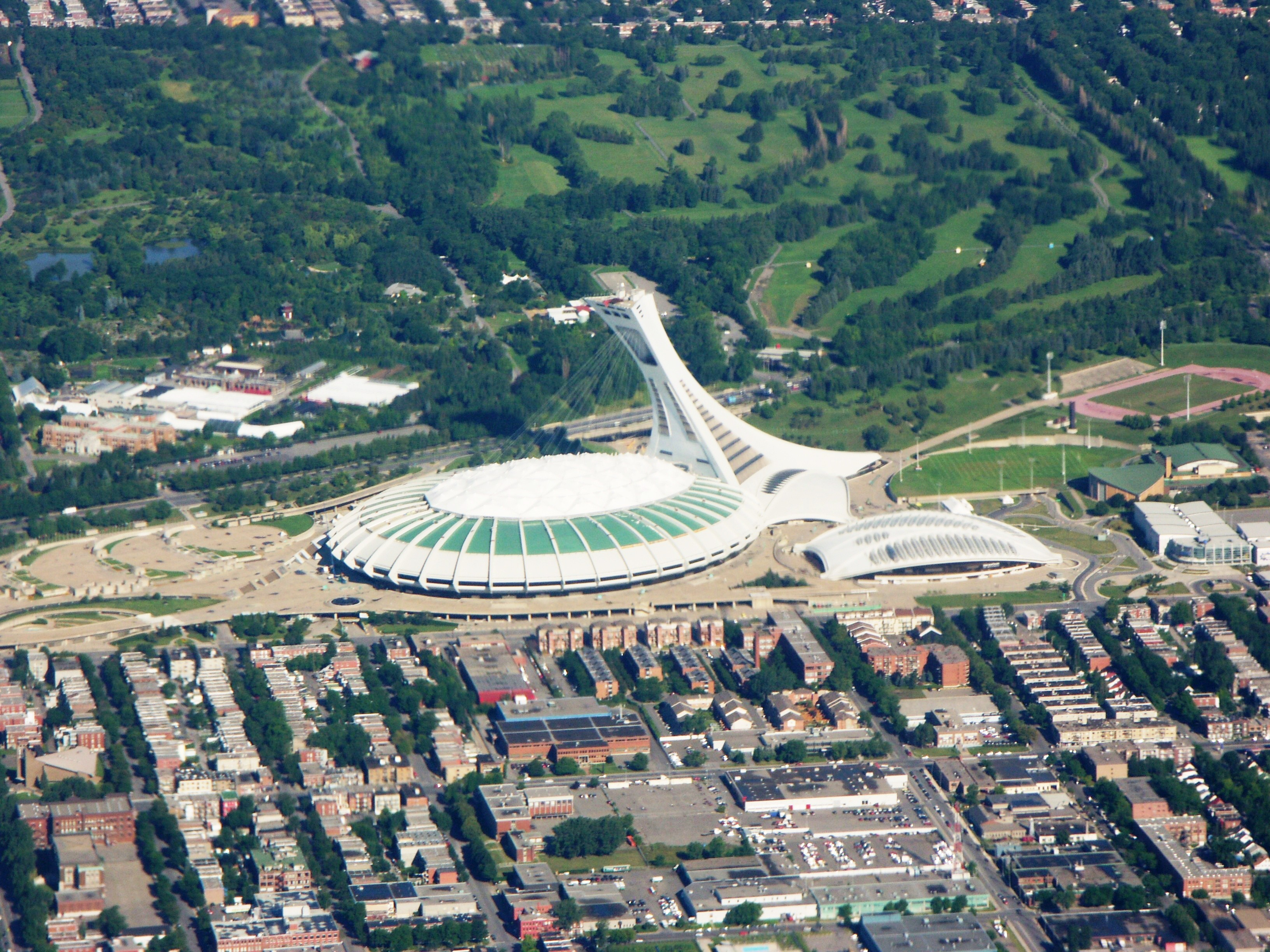 Montreal Stadium from airplane. Move approved by User:Common Good.